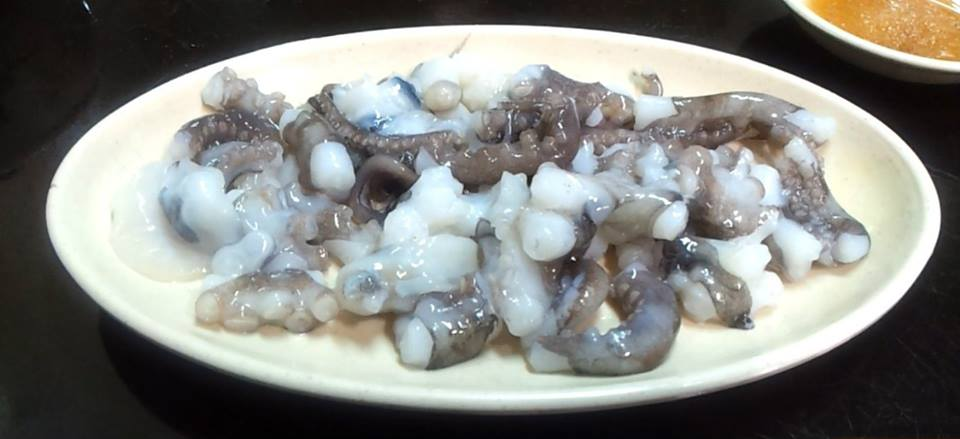 Sannakji is a Korean dish of live octopus.